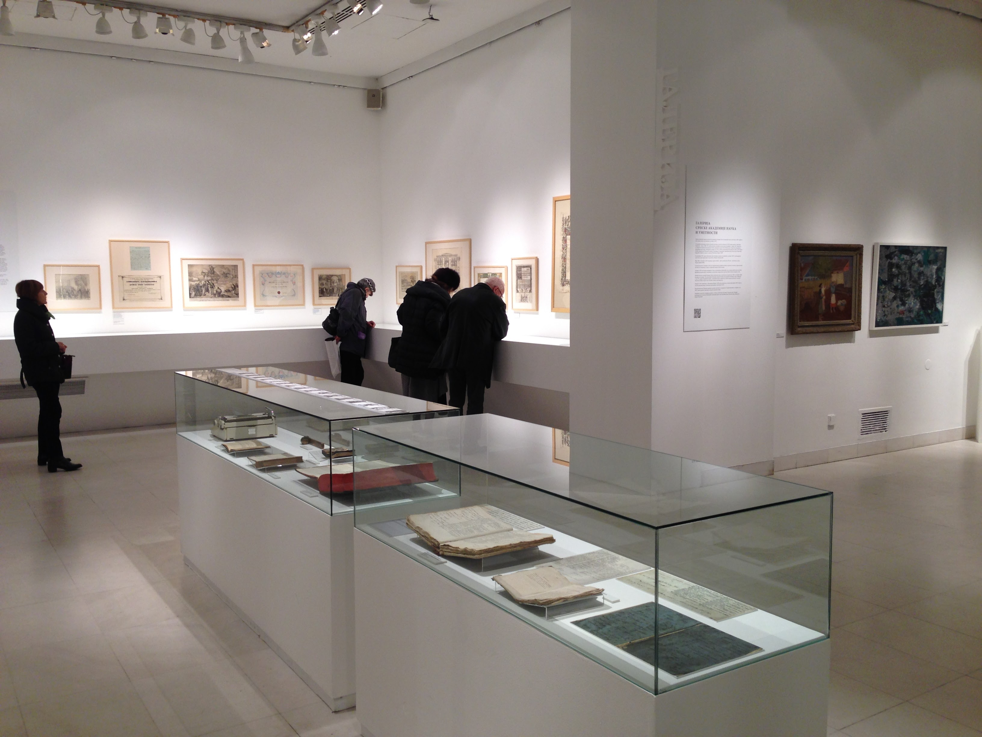 Archive of the Serbian Academy of Sciences and Art in Belgrade